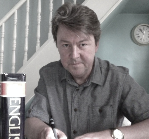 The journalist Tony Barrell, photographed in 2015